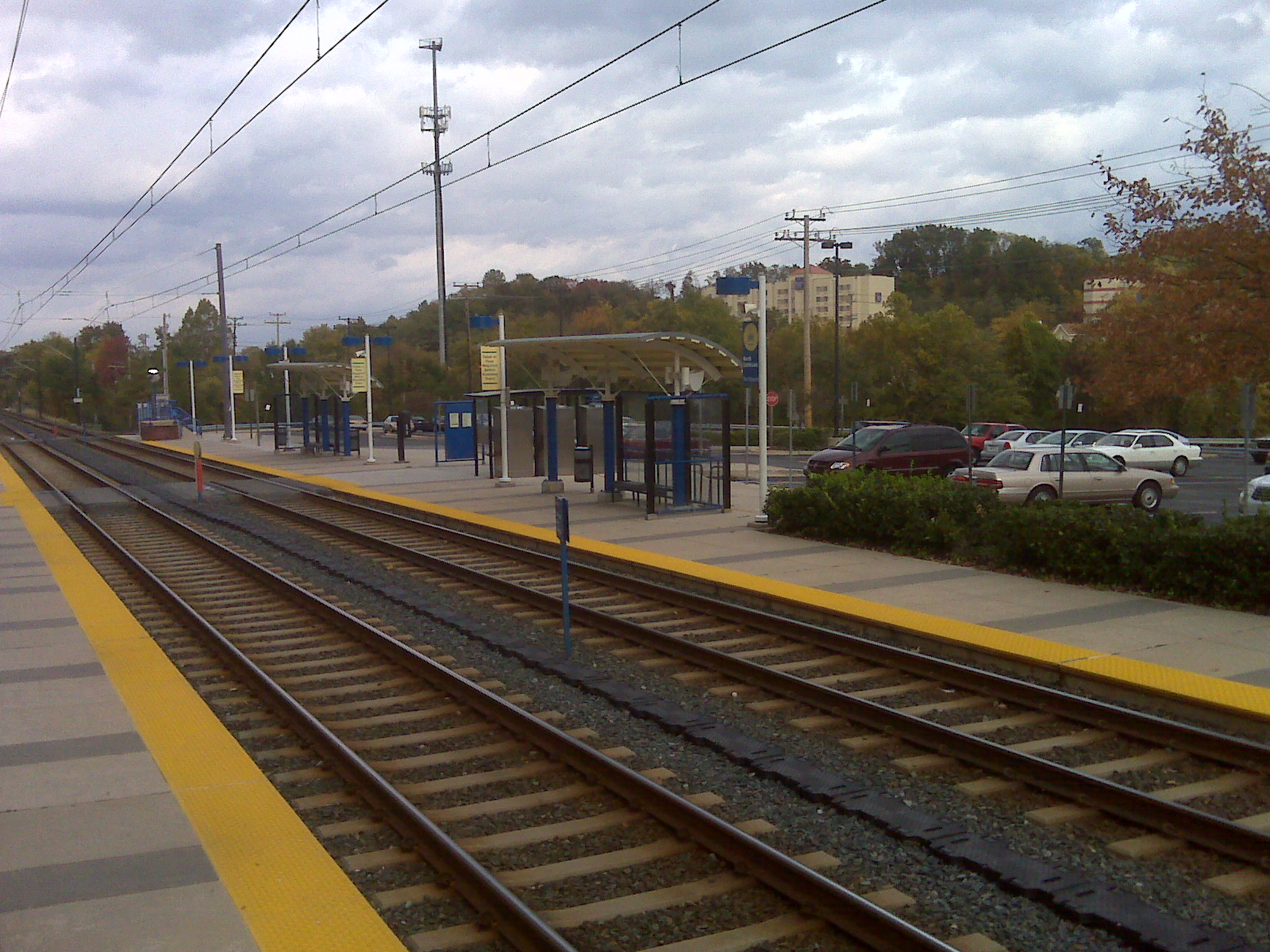 A view of the North Linthicum station on MTA Maryland's Light Rail system, located in Anne Arundel County. The picture faces north, with the Baltimore Beltway a relatively short distance behind the camera.